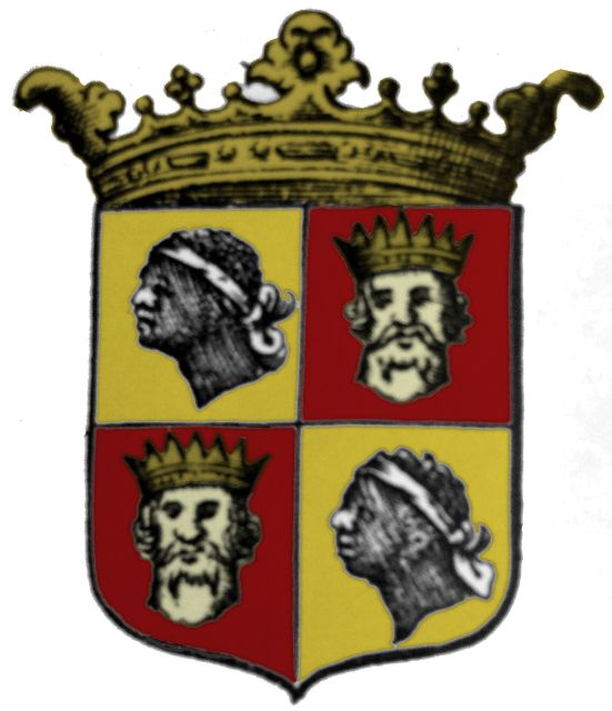 COA of the Reino de Algarve, Detail from Portugallia et Algarbia quae olim Lusitania, Atlas Contractus by Johann Janssonius, 1666, Amsterdam / colours according to Atlas Contractus